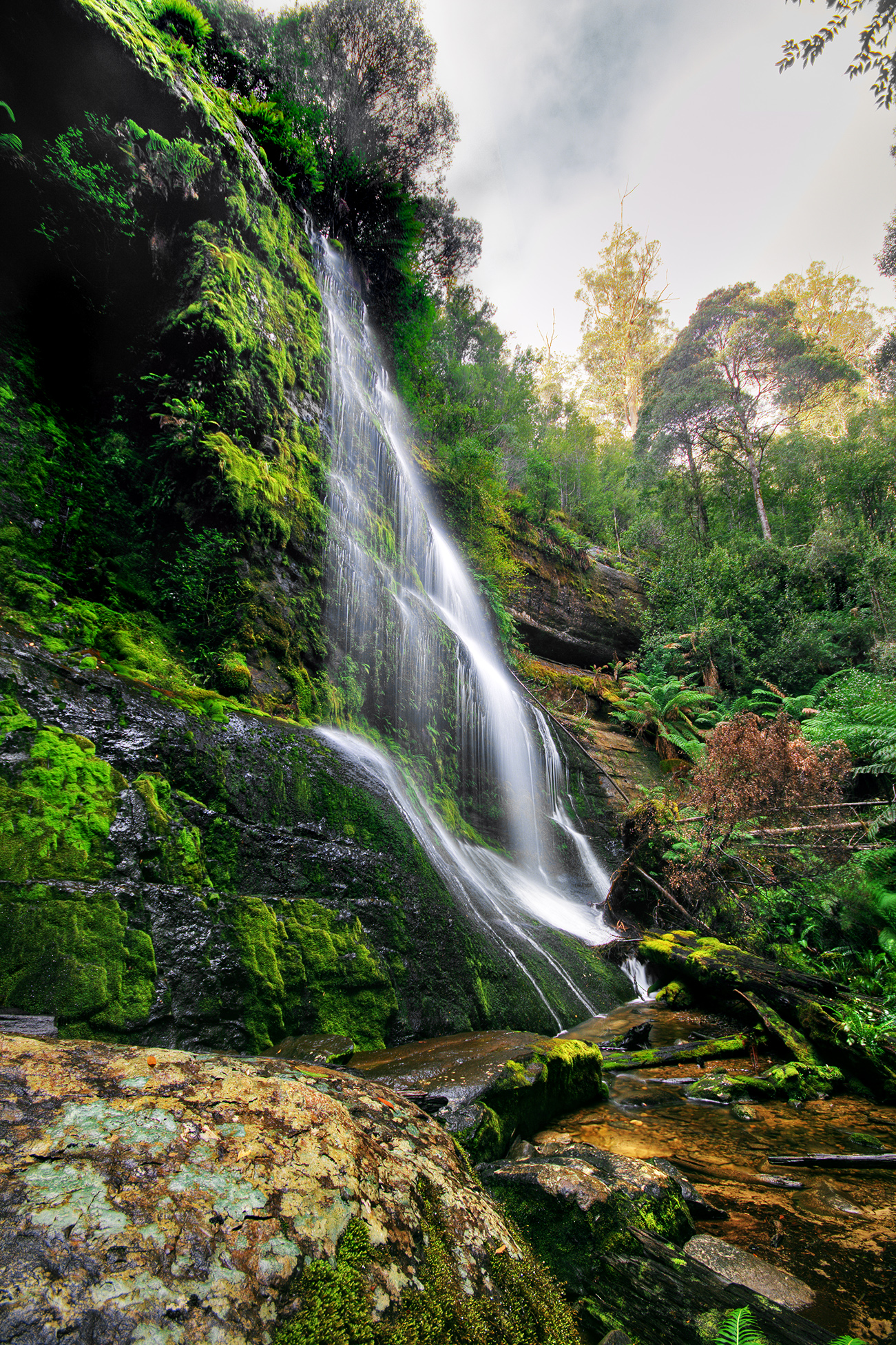 Marriott Falls, Mt Field National Park, Tasmania, Australia Camera data Camera Canon EOS 400D Lens Sigma 10-20mm F4-5.6 EX DC HSM Filter 4x ND Filter and Polariser Focal length 10 mm Aperture f/9 Exposure time 2 s Sensivity ISO 100